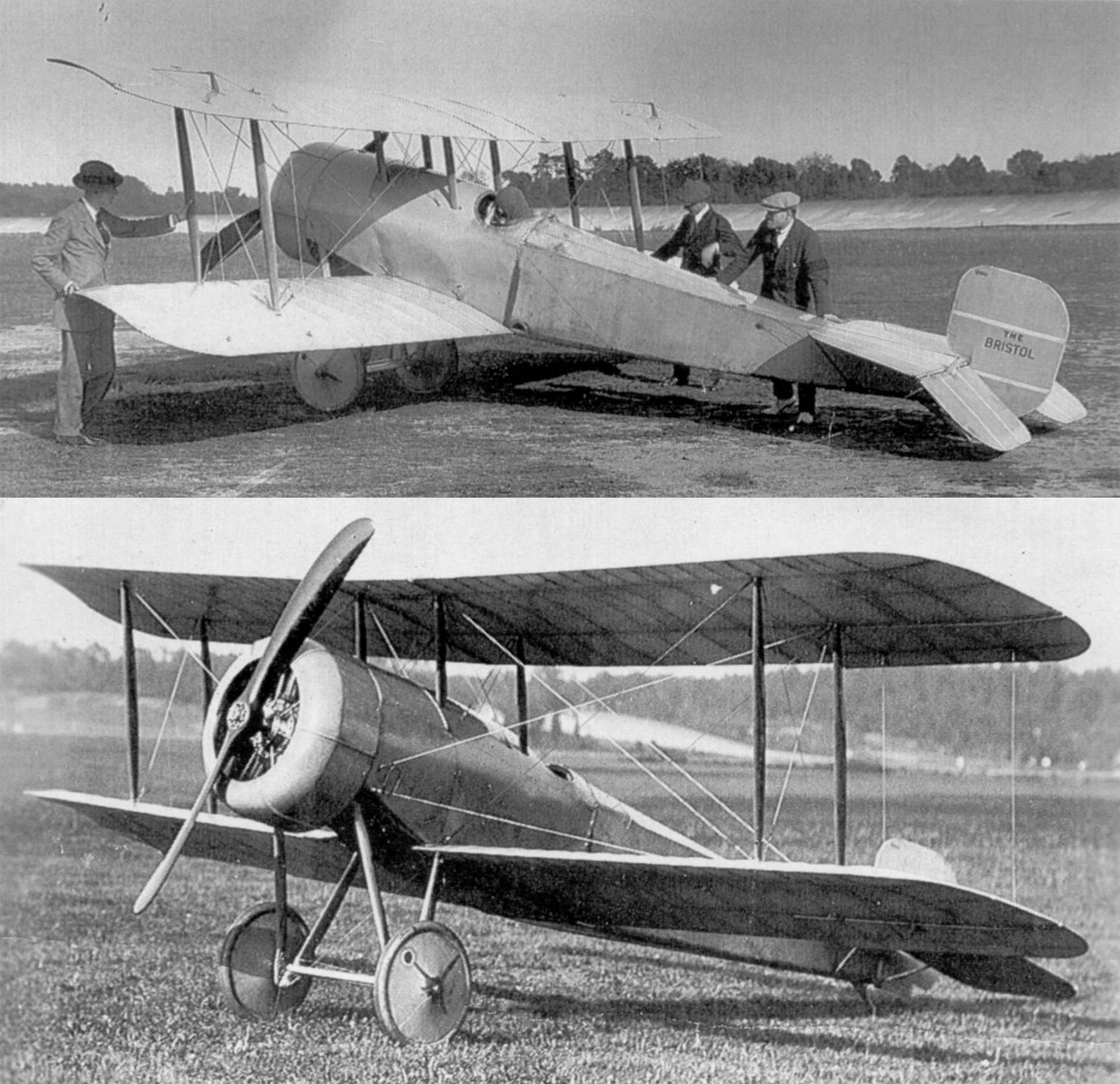 Two photos of the original Bristol Scout A in the late spring of 1914, revised with larger area wings, the "six-piece" open-front cowl shared with the twin Scout B airframes, and a larger set of tail surfaces